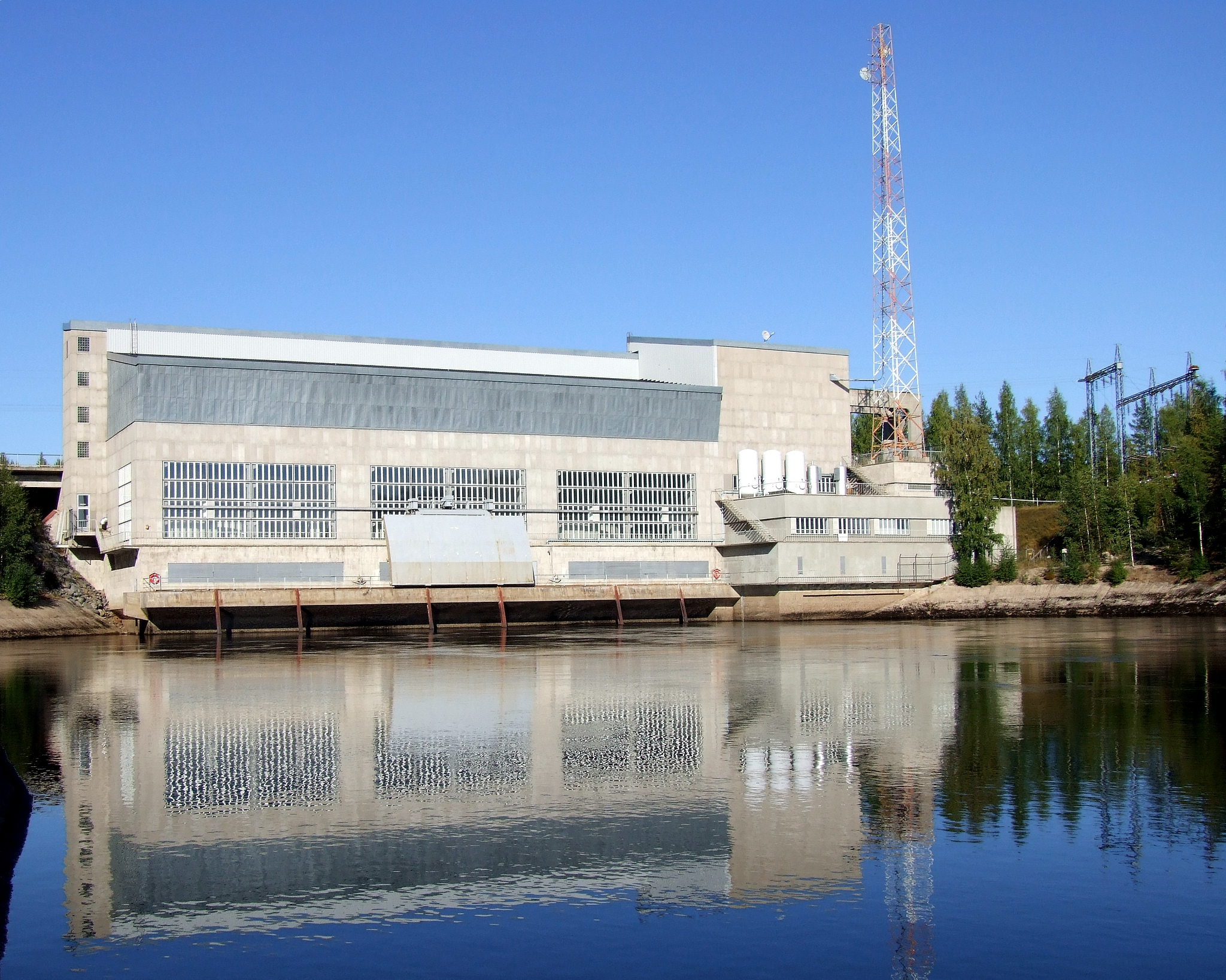 Montta power plant in the River Oulu in Northern Finland. The plant was designed by architect Aarne Ervi and completed in 1955. The current capacity is 43 MWe.